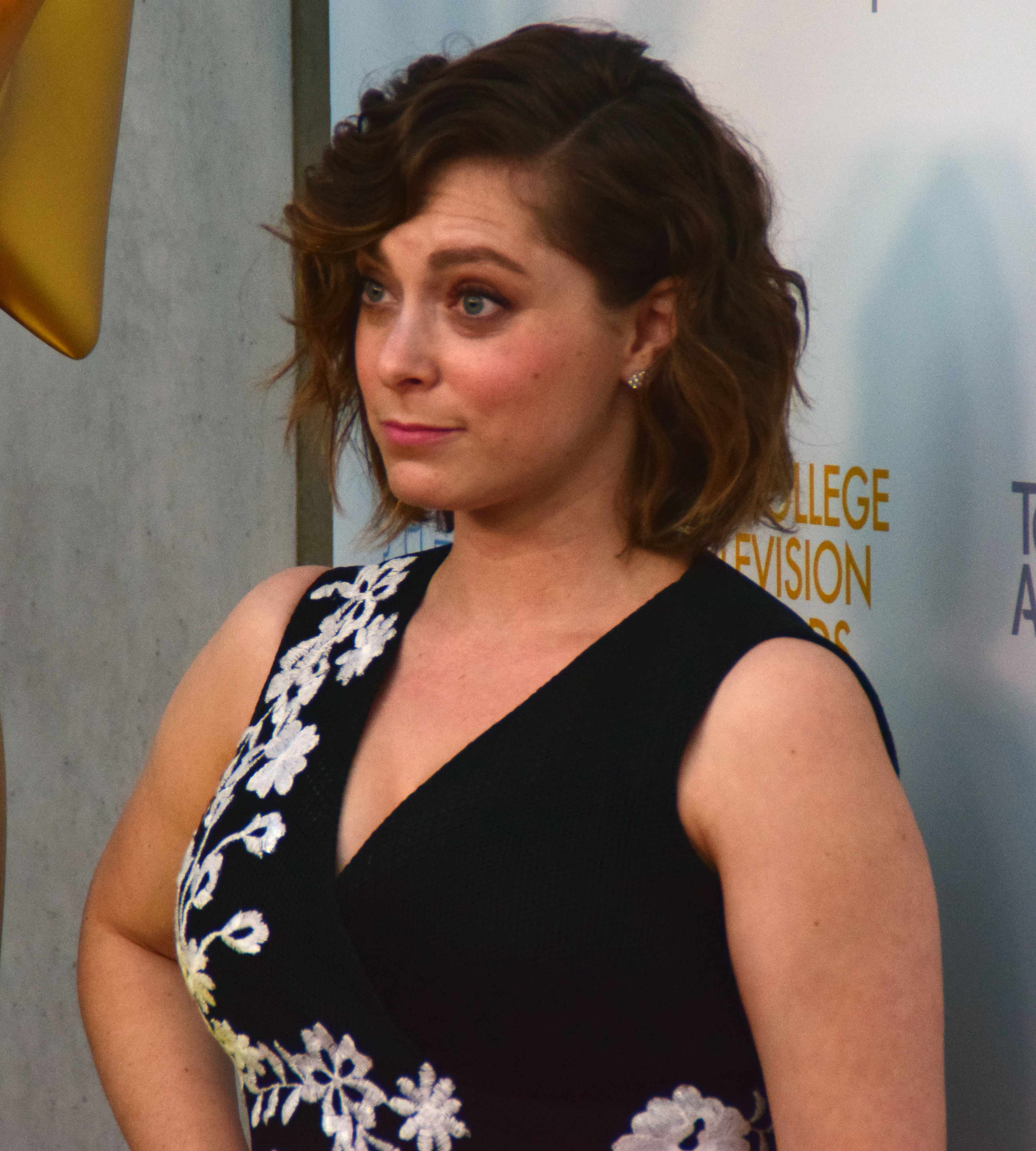 Rachel Bloom at the 37th College Television Awards.